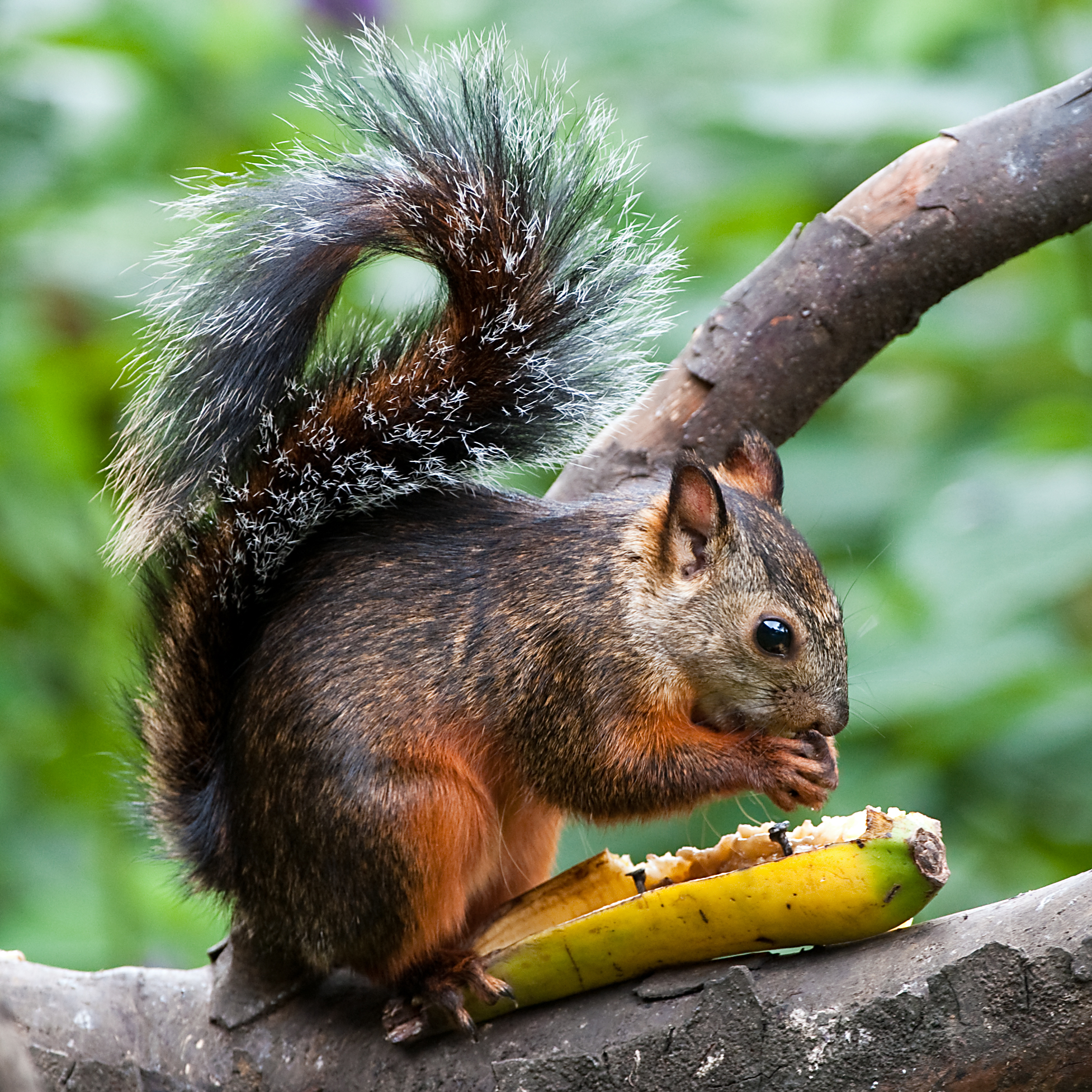 A Variegated Squirrel near Rancho Naturalista, Cordillera de Talamanca, Costa Rica.